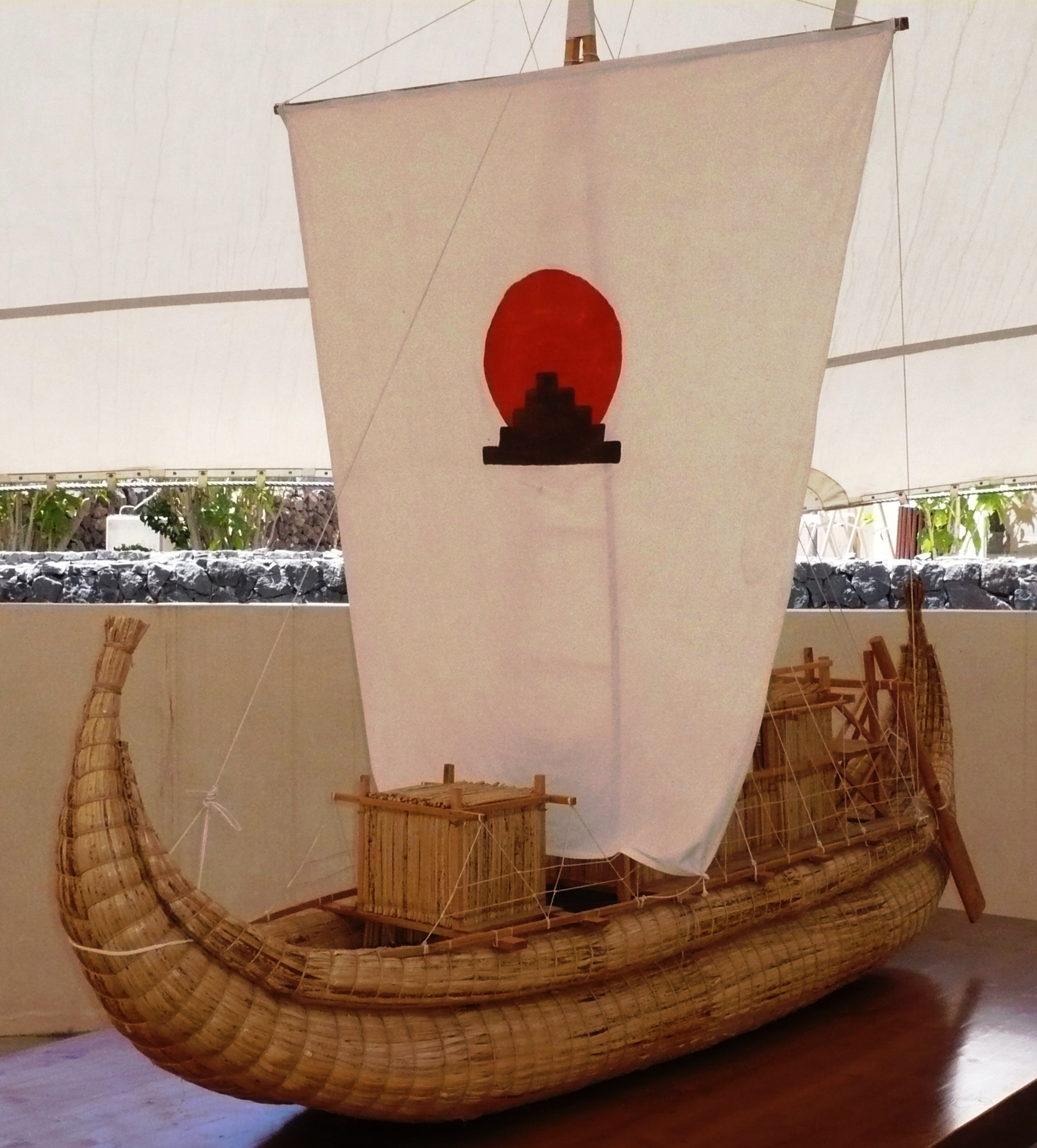 Model of the reed boat Tigris, boat of Thor Heyerdahl. Pyramids of Güímar, Tenerife, Canary Islands, Spain.